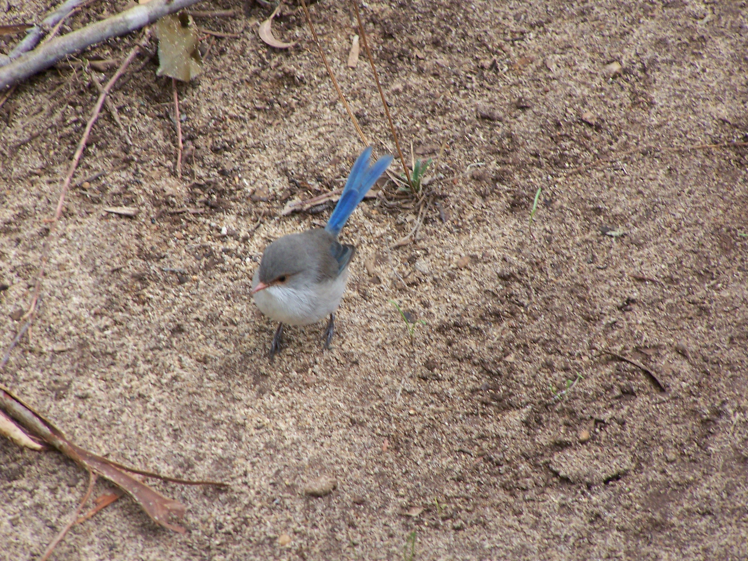 Wren at Serpentine Dam Western Australia AVES PASSERIFORMES PASSERI CORVIDA MALURUS